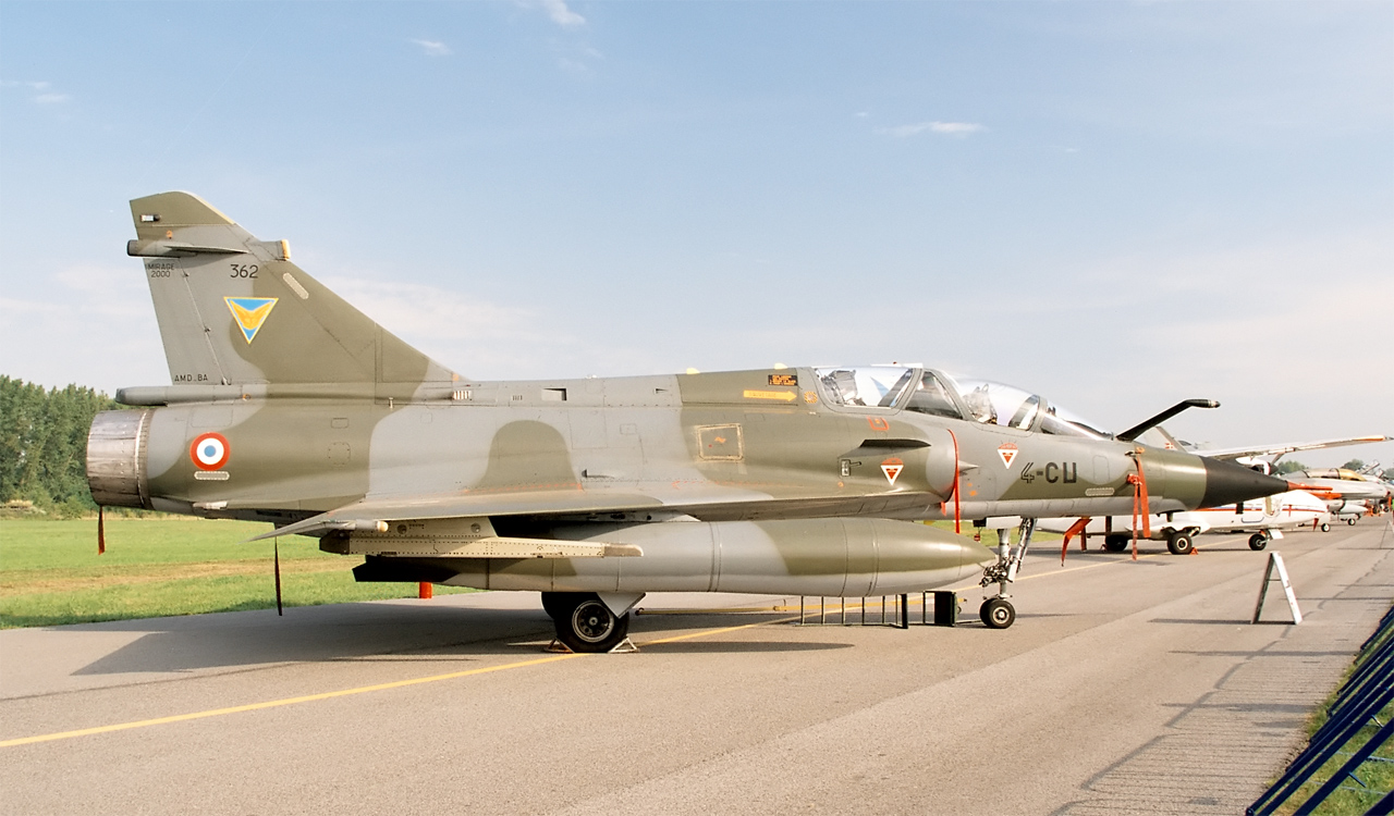 Mirage 2000 of French Air Force (registration number: 362) on static display at Radom Air Show 2005. Photo: Przemyslaw "Blueshade" Idzkiewicz. August 28th, 2005. Released under cc-by-sa 2.5 license.